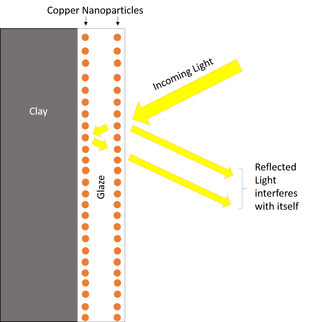 The luster effect on certain ceramics from Mesopotamia was created by dual layers of copper nanoparticles in the glaze that created an interference effect when light reflected off both layers.